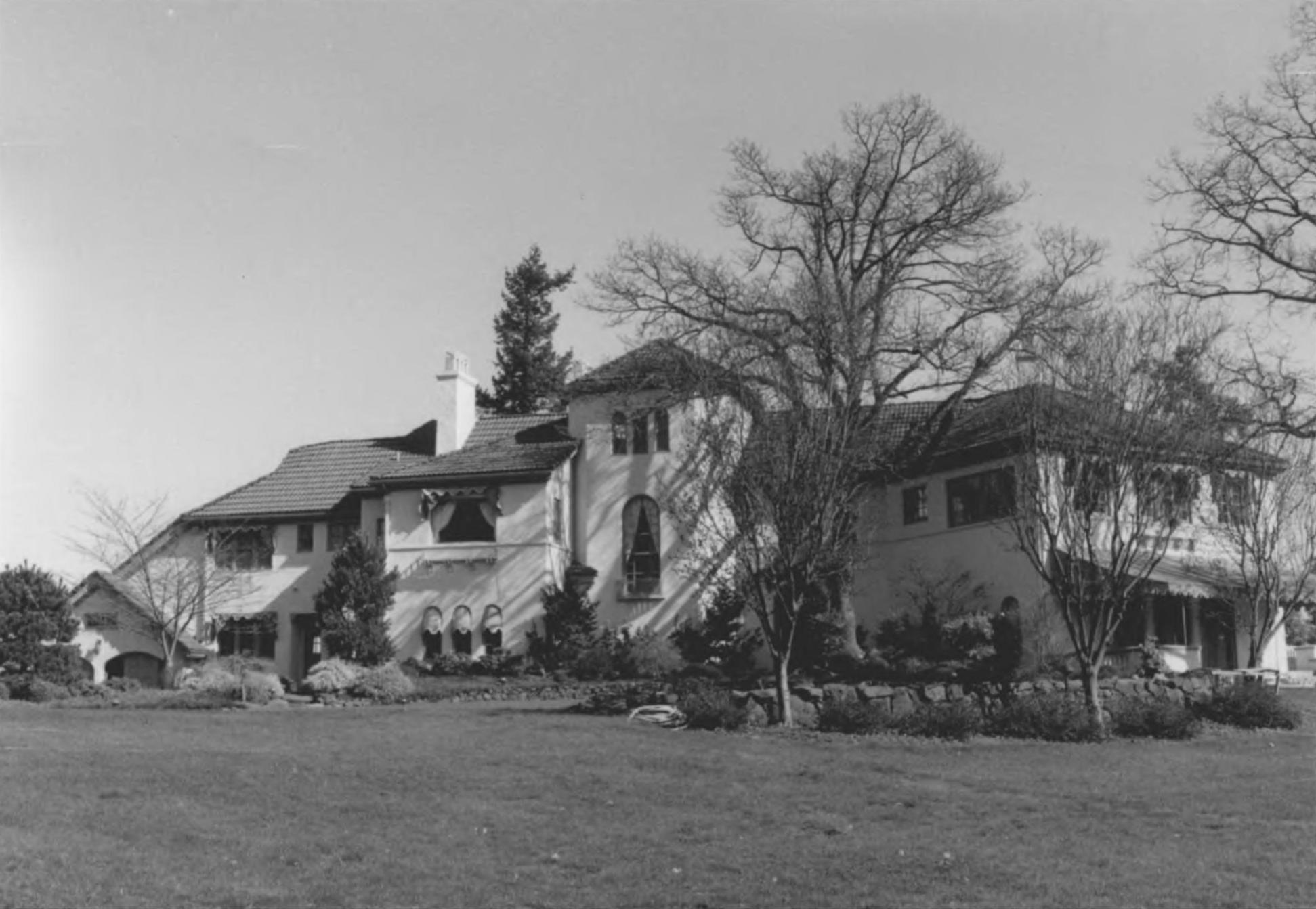 The historic Hall–Chaney House (built 1916), located at 10200 Southeast Cambridge Lane in Milwaukie, Oregon, United States is listed on the US National Register of Historic Places.